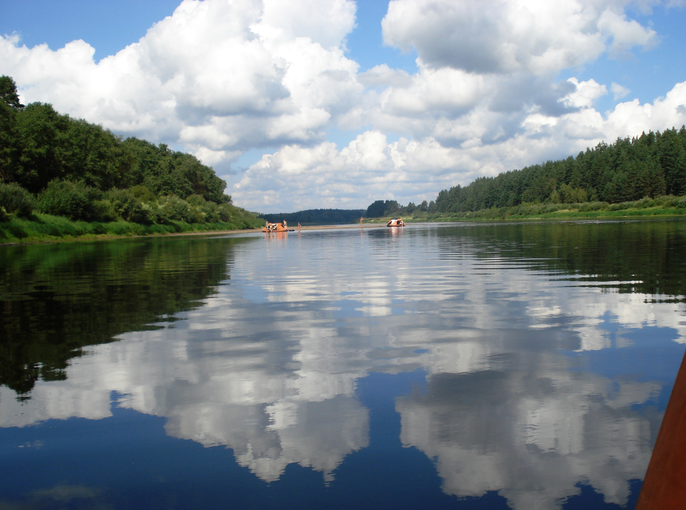 Dzvina River in Beshankovichy area